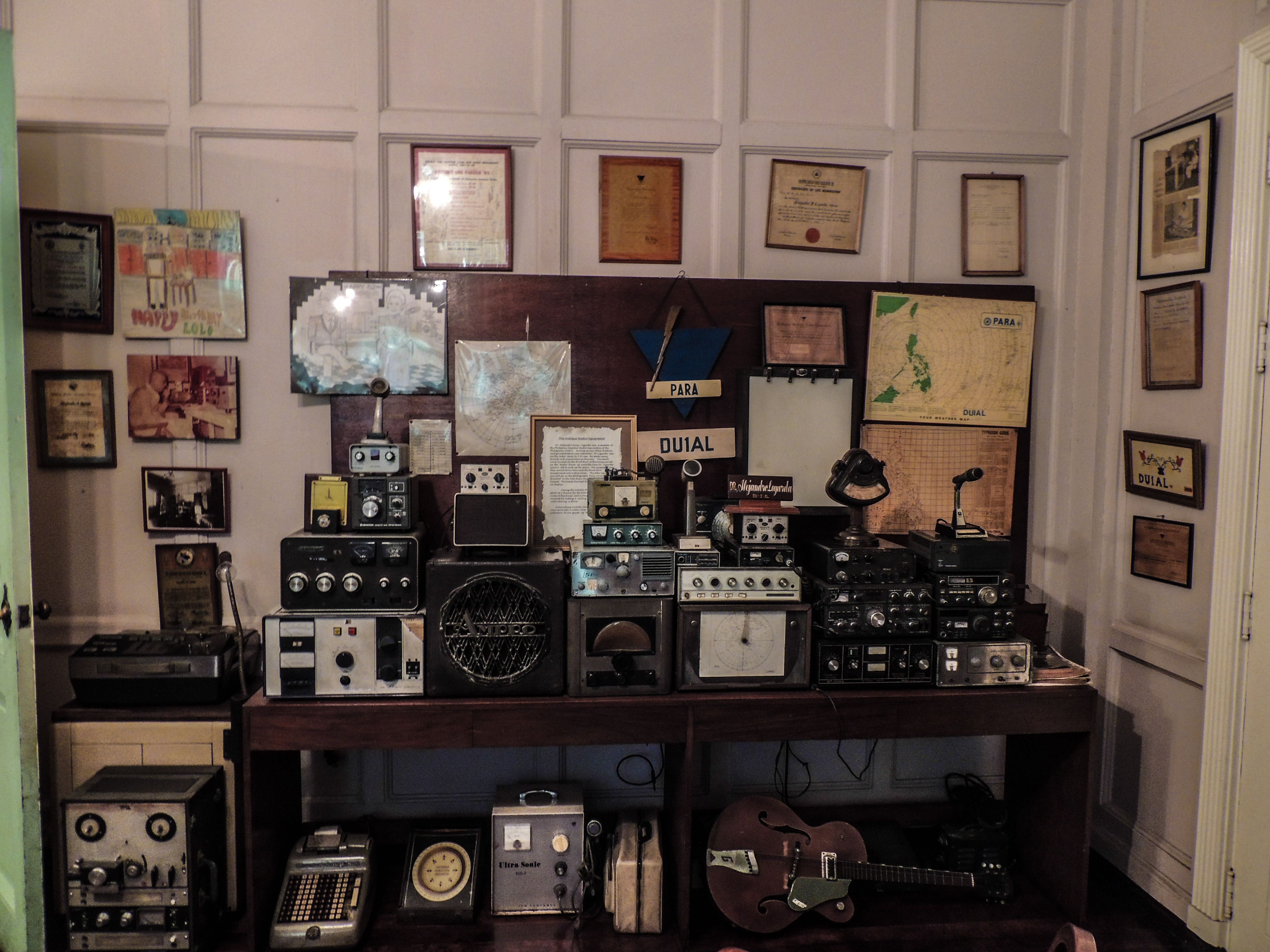 Legarda Ancestral House